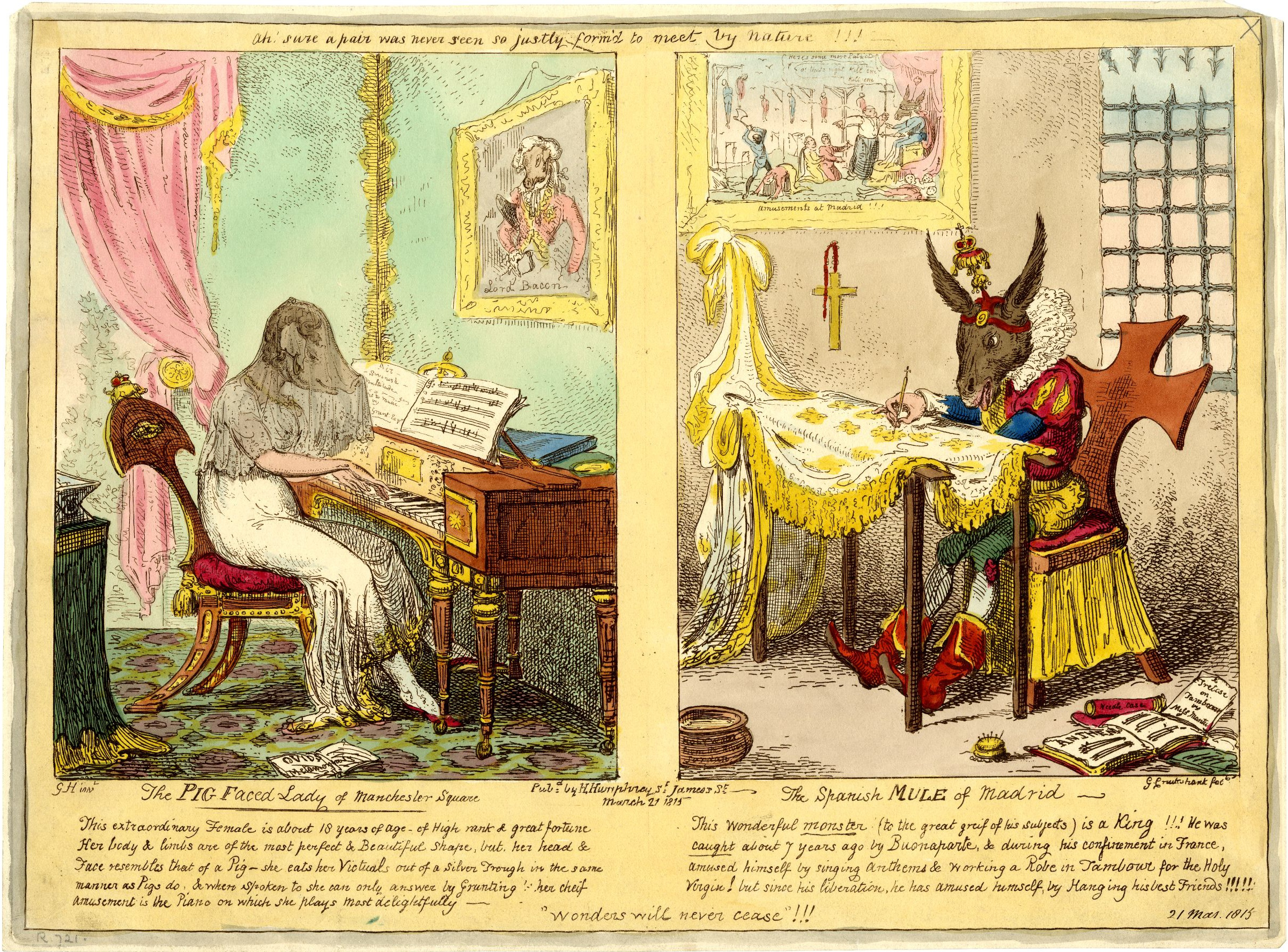 The Pig-faced Lady of Manchester Square and the Spanish Mule of Madrid, caricature comparing reports of a London woman with a pig's head and the appearance of Ferdinand VII of Spain